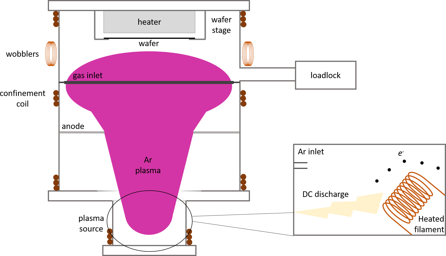 Schematic of a LEPECVD reactor.